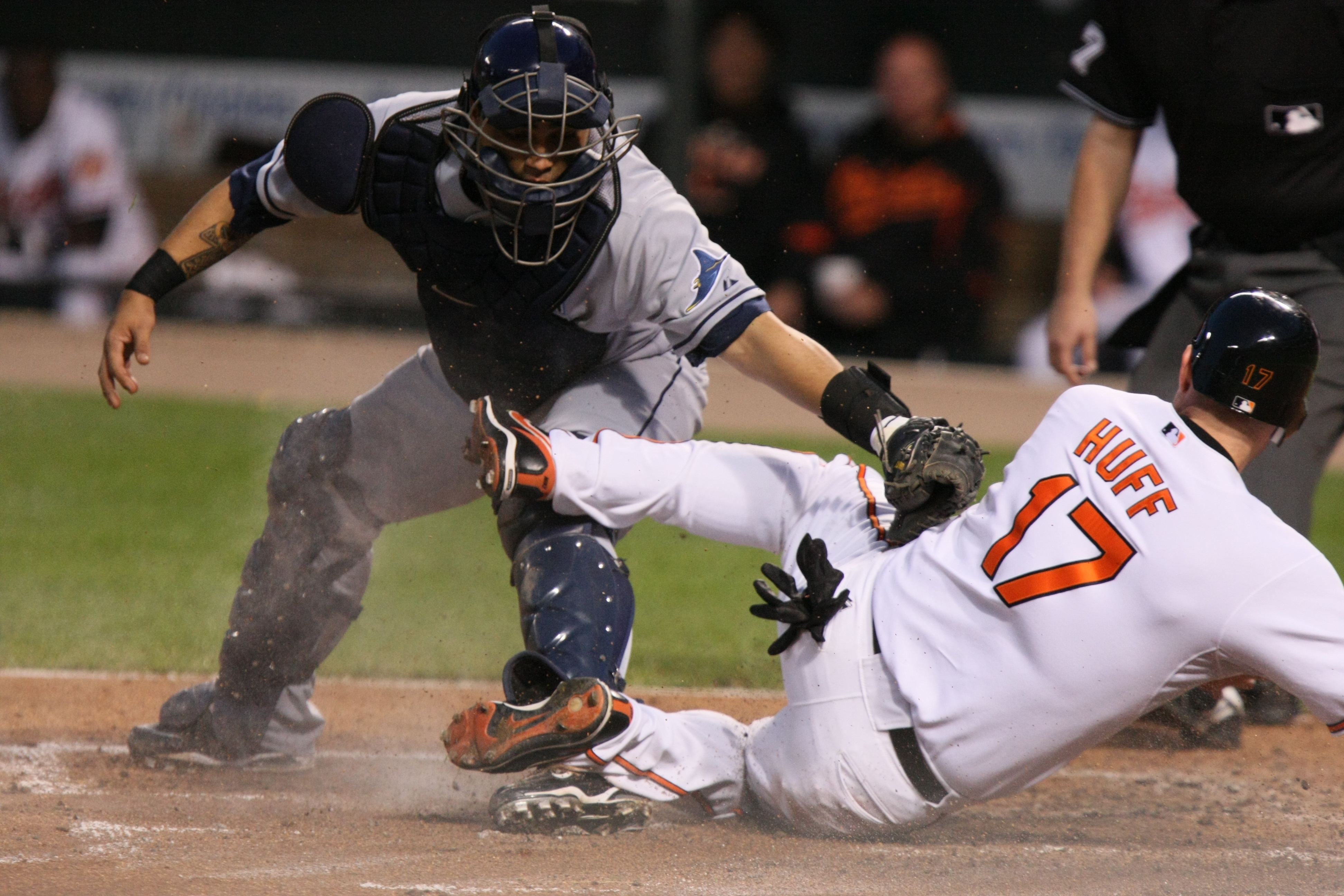 Dioner Navarro(catcher) and Aubrey Huff